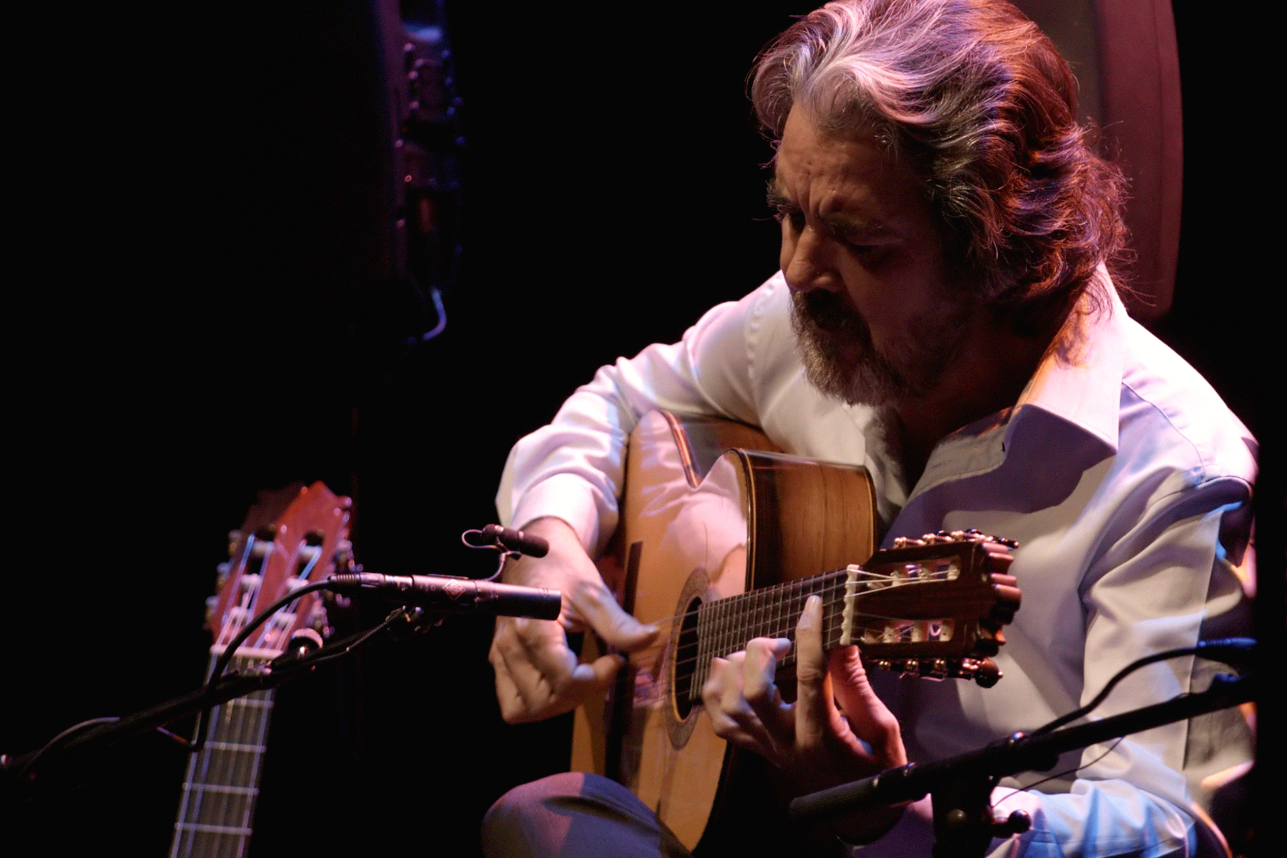 Rafael Riqueni en el Teatro de la Maestranza, Sevilla 2015